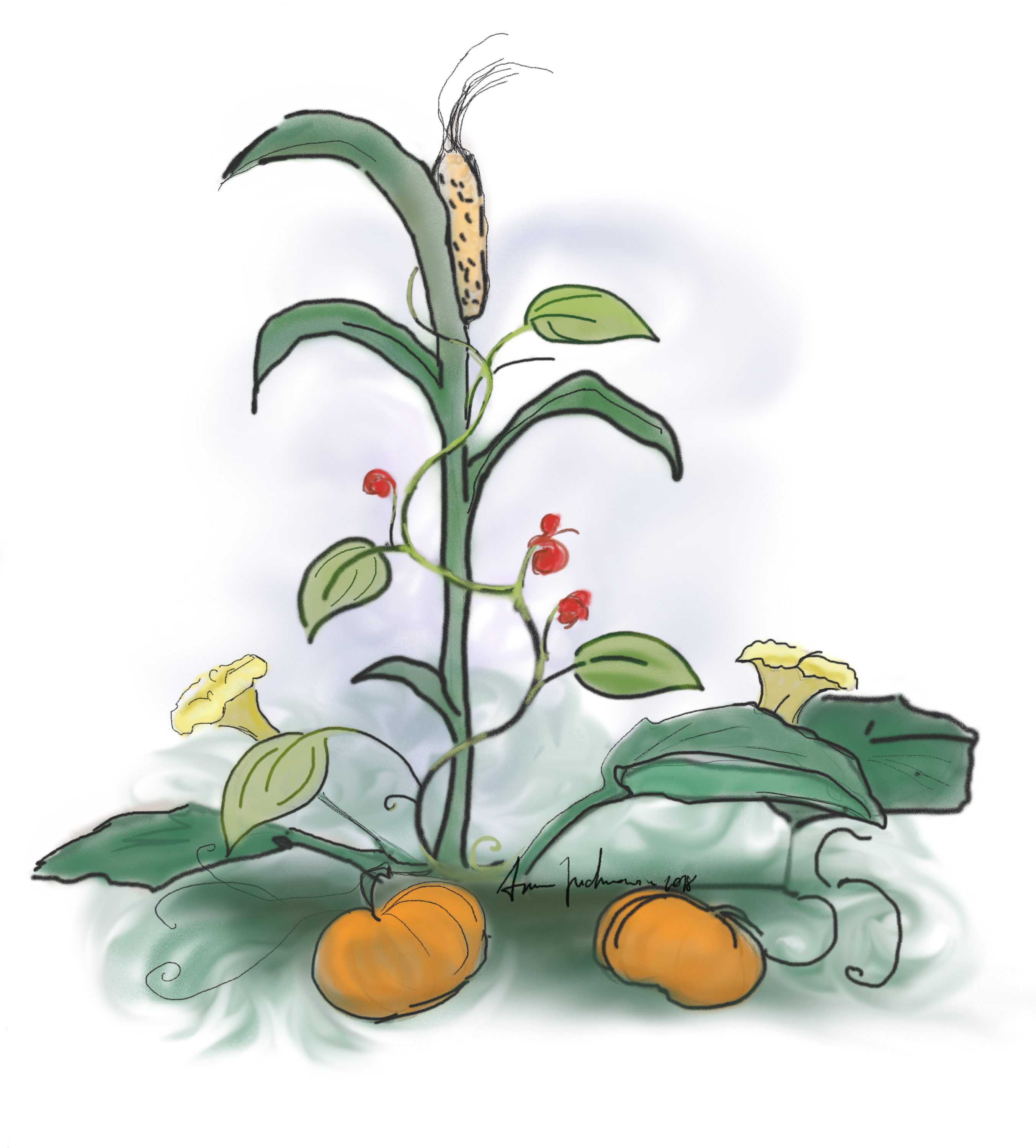 In a technique known as companion planting the three crops (corn, beans, pumpkin) are planted close together. Digital and pencil drawing by Anna Juchnowicz.